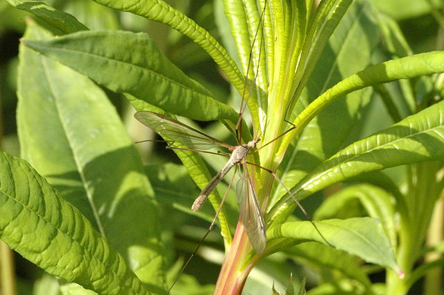 Picture taken in Commanster, Belgian High Ardennes . Species: male Tipula oleracea